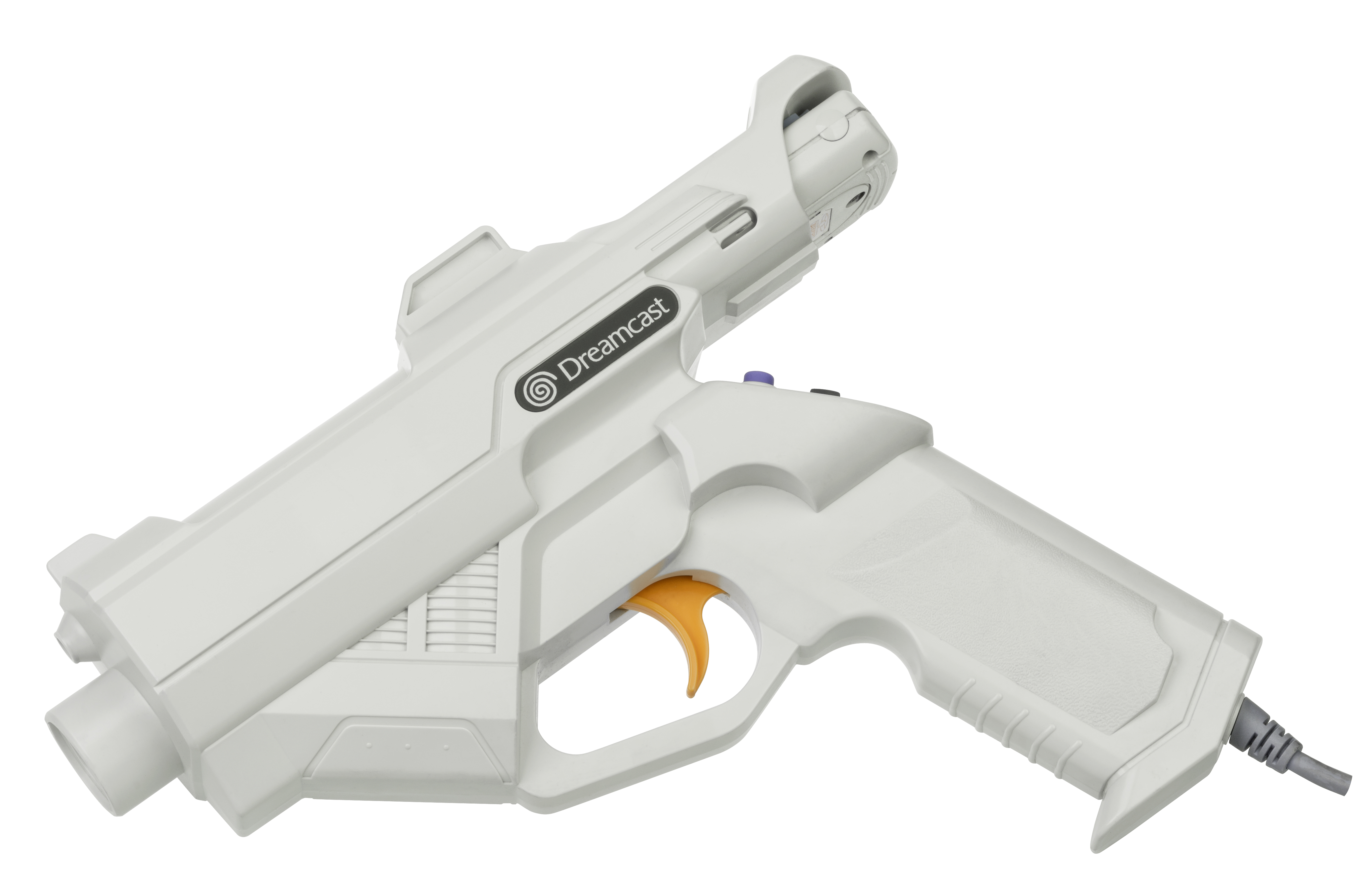 The official lightgun for the Sega Dreamcast, model number HKT-7800. This model was exclusive to Japan and Europe, as only third-party lightguns were available in North America.